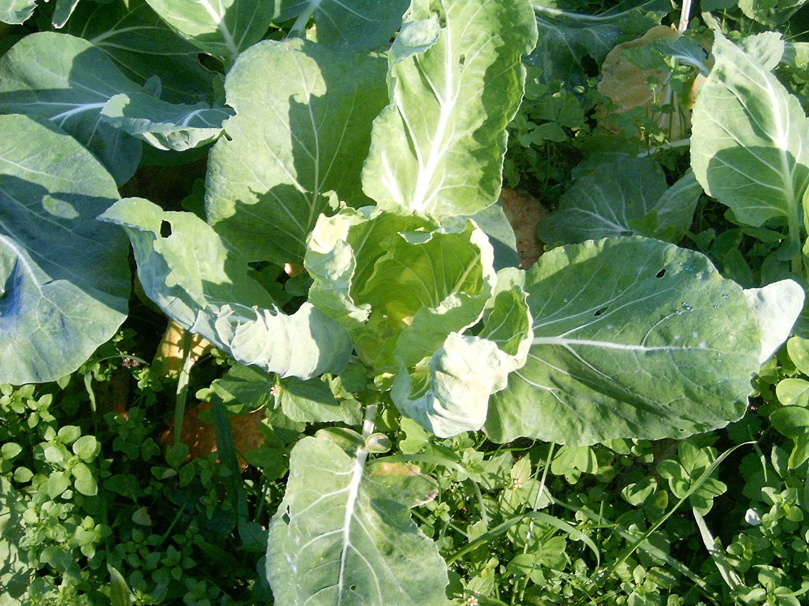 Brassica oleracea group Tronchuda (from the group Acephala) Photo by Manuel Anastácio